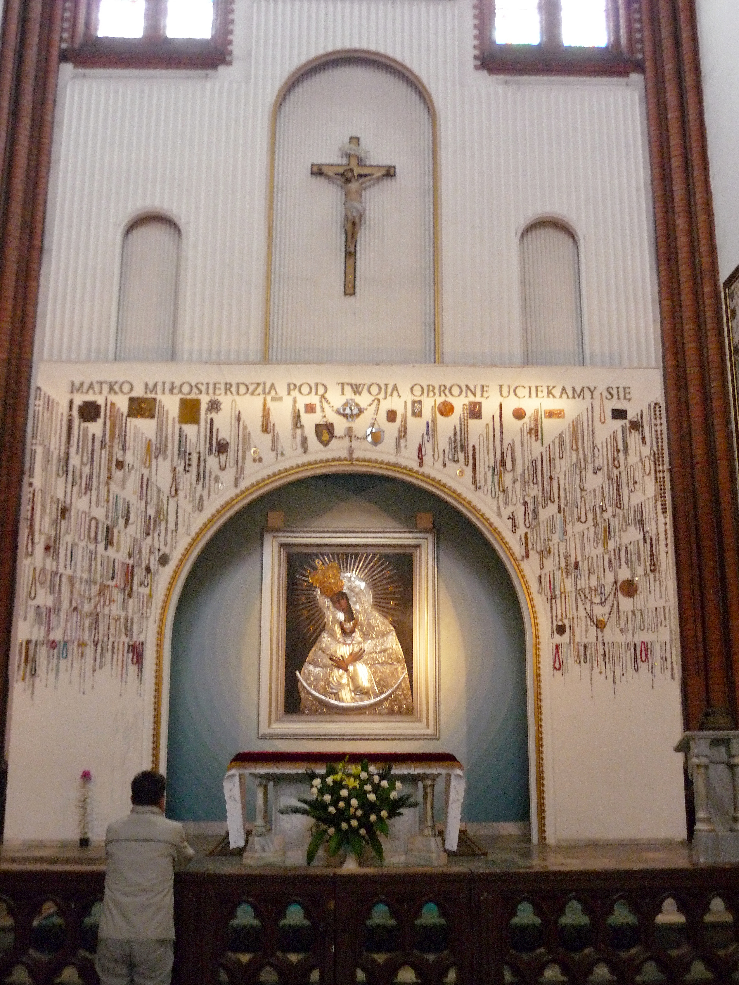 Białystok - "Dawn Gate" altar in the catholic cathedral of the Assumption of the Blessed Virgin Mary